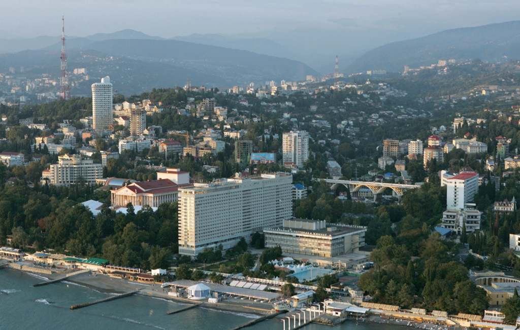 “Sochi”. A bird's-eye view of Sochi.